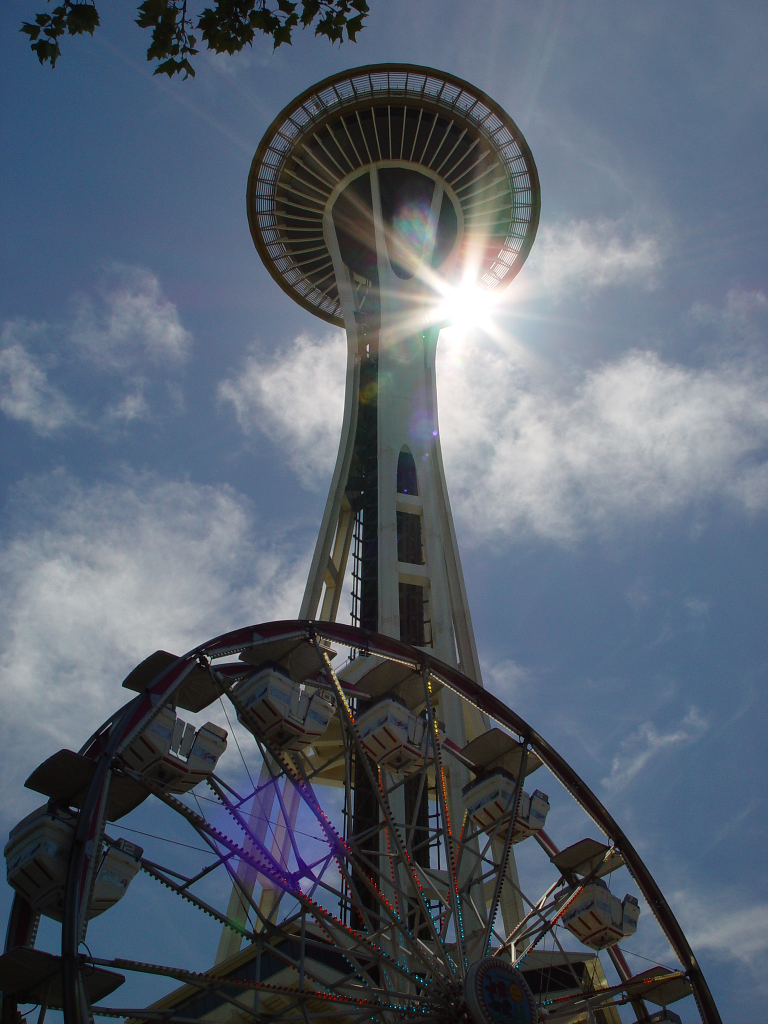 Space Needle and Ferris wheel in Seattle